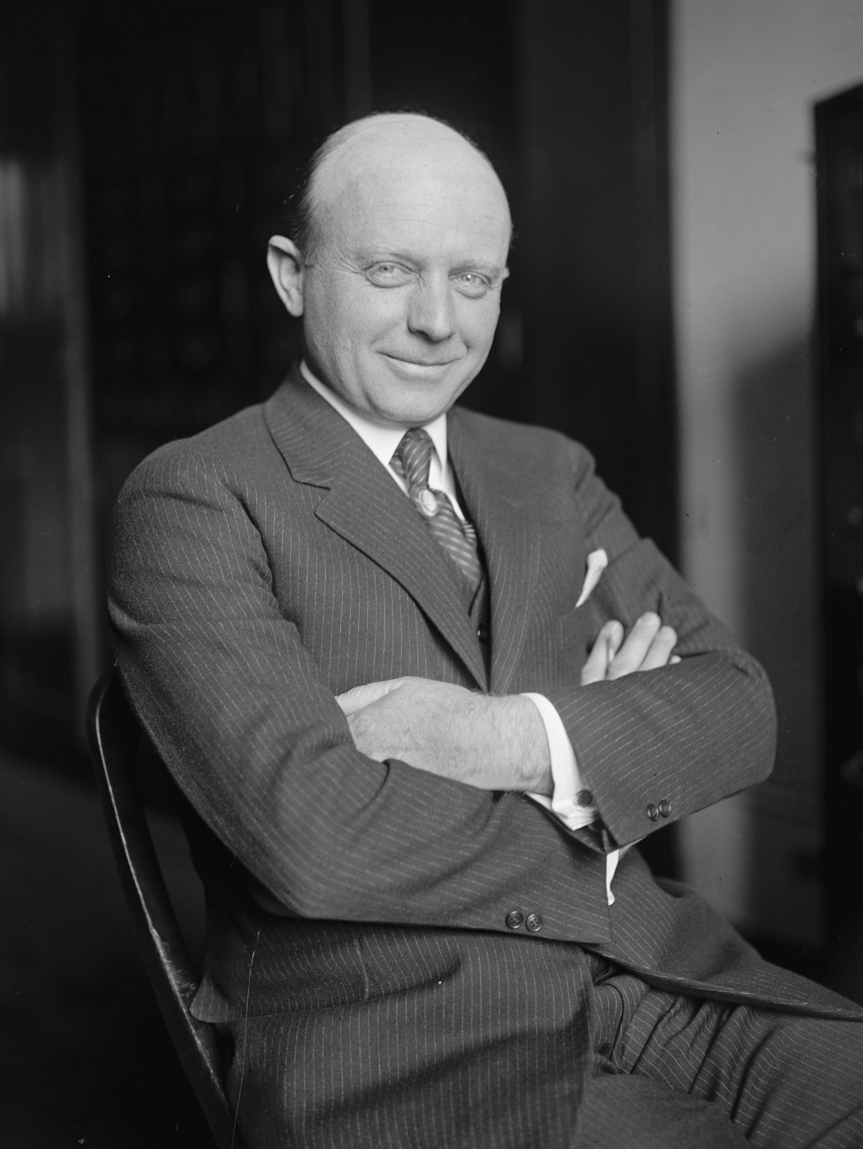 Title: Jos. J. Manlove, 3/19/23 Abstract/medium: 1 negative : glass ; 5 x 7 in. or smaller